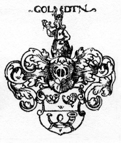 Coat of Arms of Gold, Austria